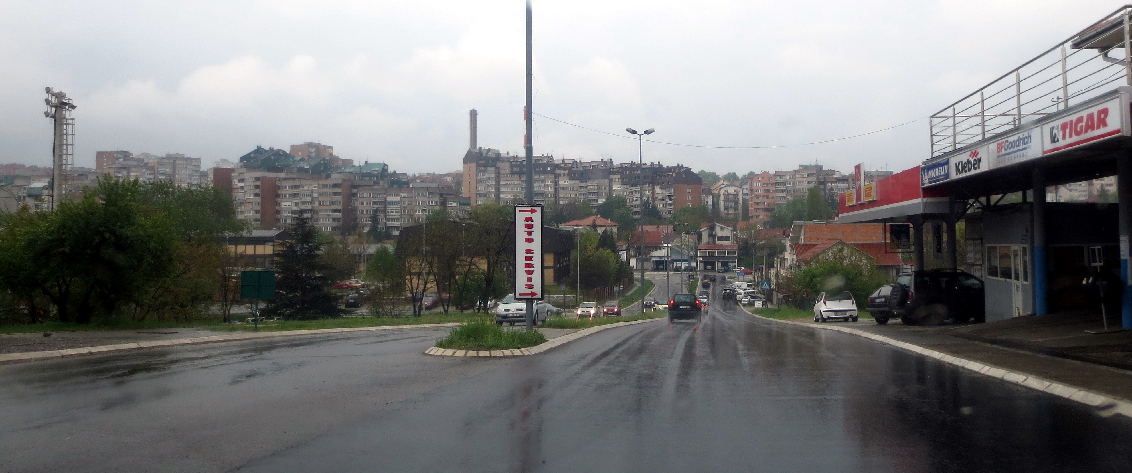 Image from the municipality of Vozjdovac, southeast of Beograd, Serbia.